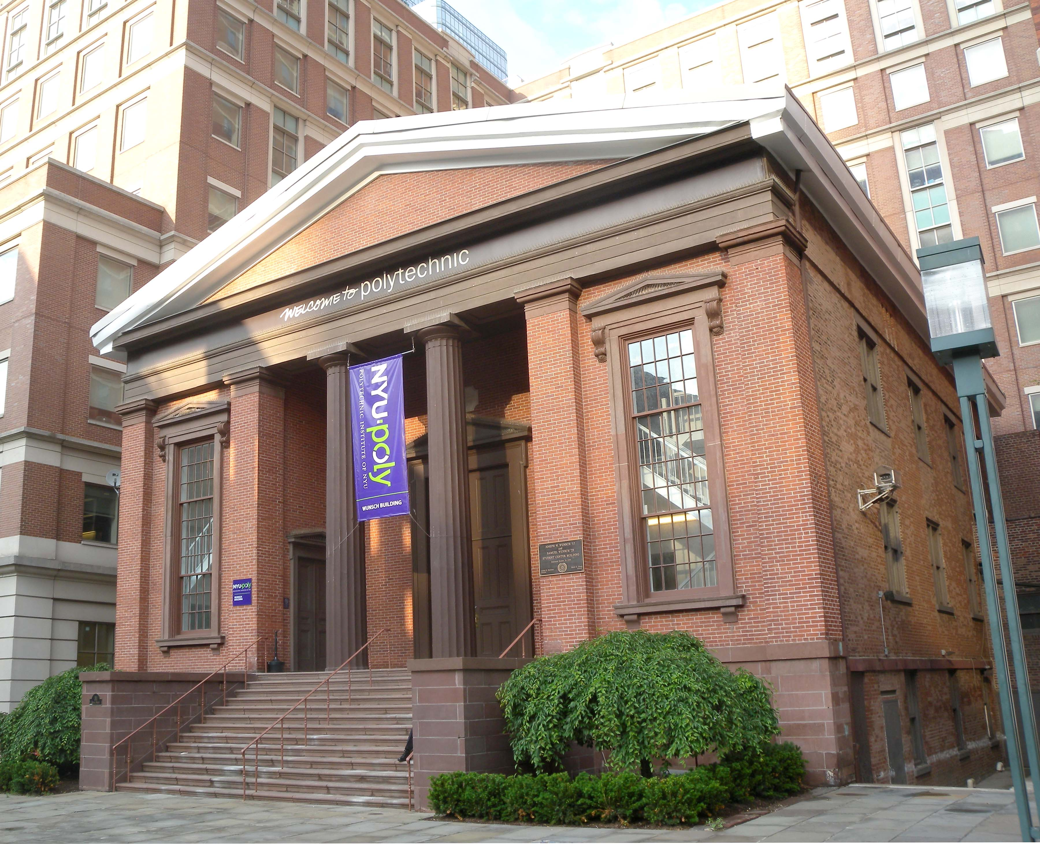 Looking northeast at First Free Congregational Church, later Bridge Street AWME and then a factory building, now part of Brooklyn Poly, near dusk of a mostly cloudy day. ZIP 11201.